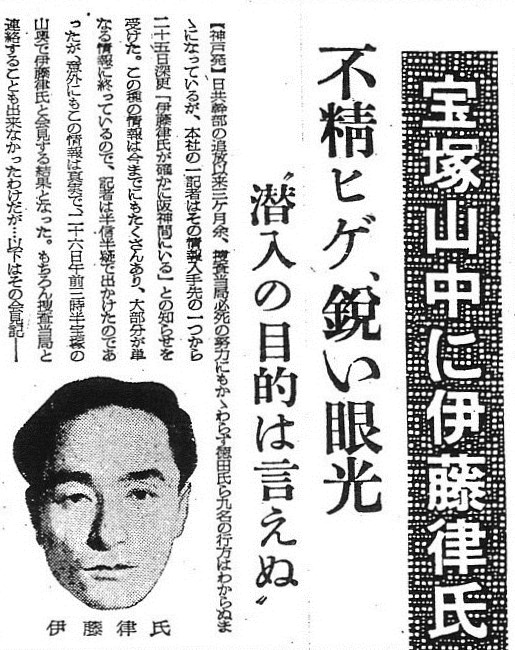 Asahi Shimbun newspaper clipping (27 September 1950 issue). "The exclusive interview" was not done actually. One of three major hoaxes in Japan.